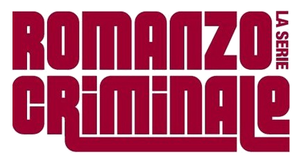 Logo from the Italian television series Romanzo criminale - La serie